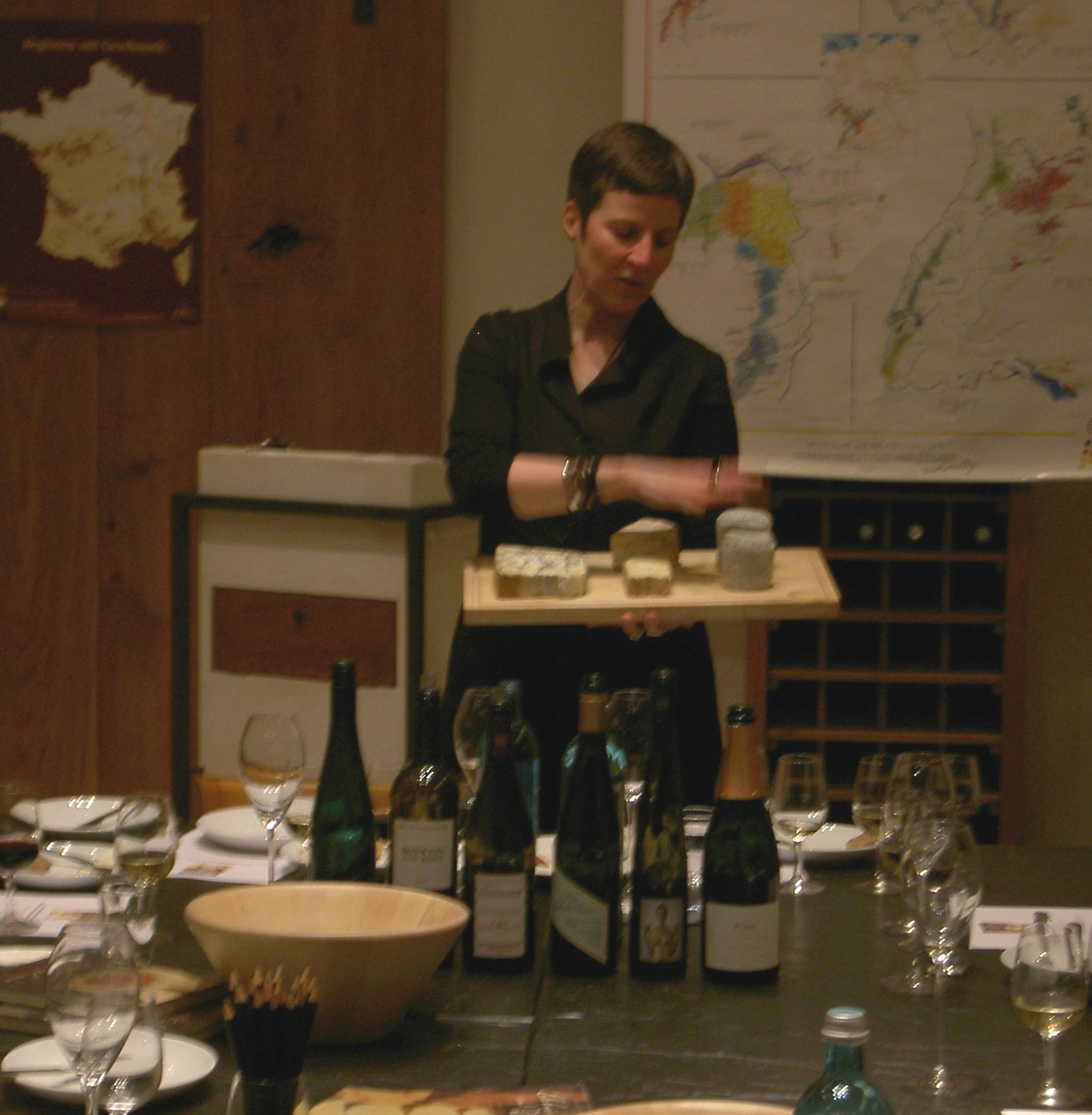 Ursula Heinzelmann conducts a cheese and wine tasting